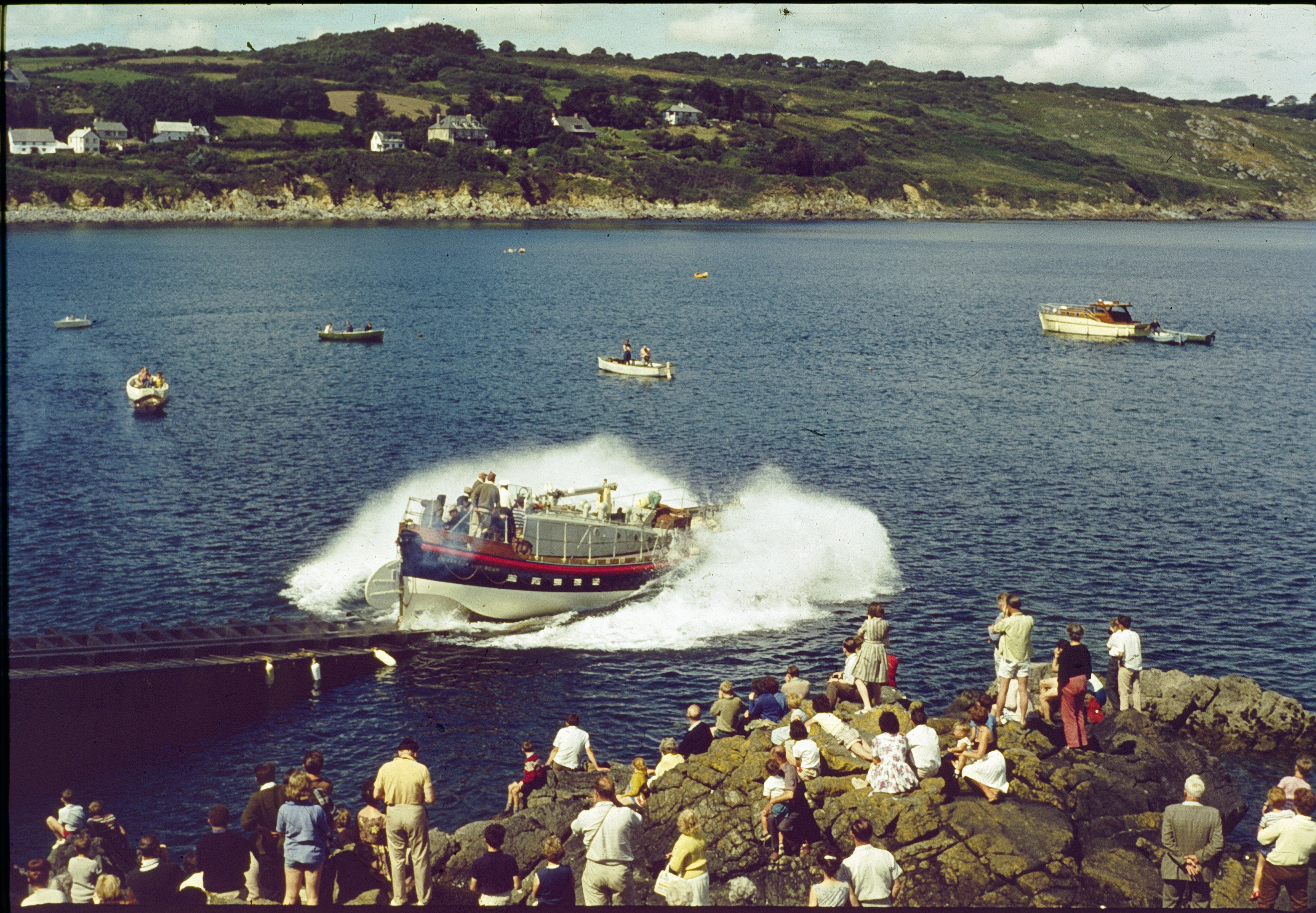 The Lizard lifeboat Duke of Cornwall (Civil Service No. 33) launching from the slipway of the lifeboat station located in the village of Lizard, Cornwall, England.